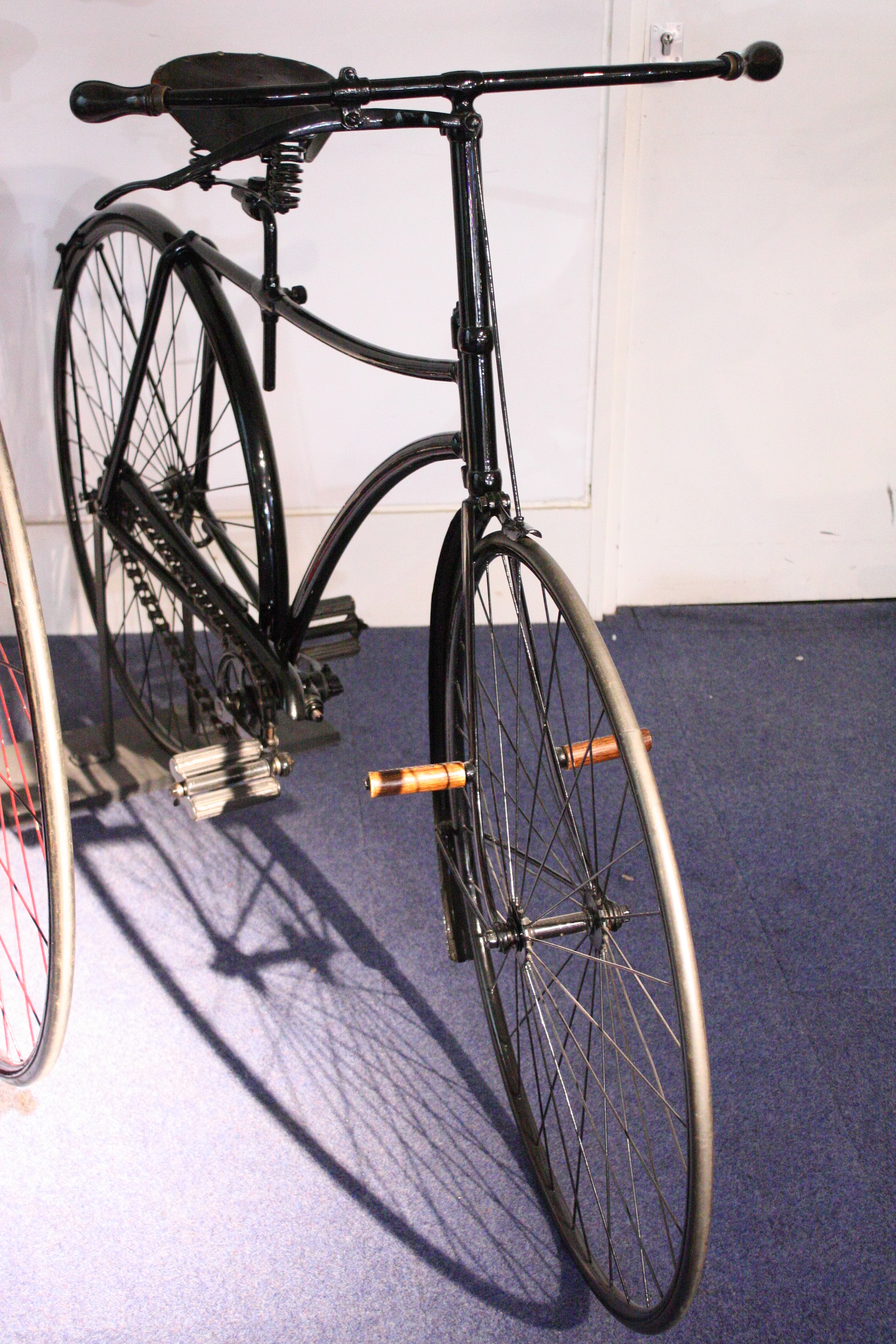 "This bicycle was made by the Coventry Machinists Company in their Cheylesmore factory, Coventry. By the 1880s the Coventry Machinists Company were using the trade name "Swift" for all their cycles. It is Called a Safety Cycle because its shape makes it much safer to ride than the Penny Farthing bicycle which was being used by most cyclists at the time." Coventry Transport Museum, UK. 2009